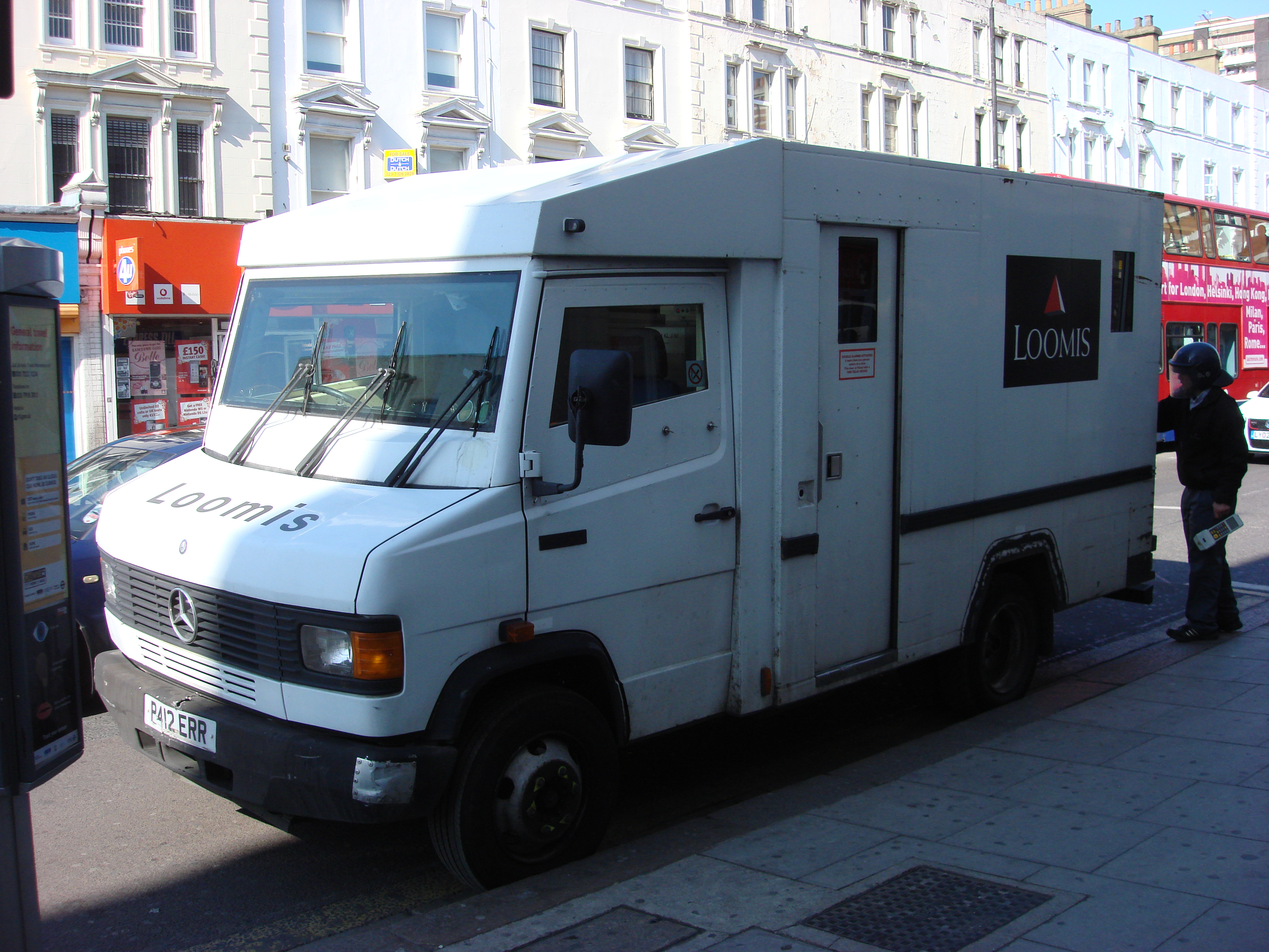 A Loomis owned, Mercedes-Benz T2 Armoured Van on Kilburn High Road, London, UK